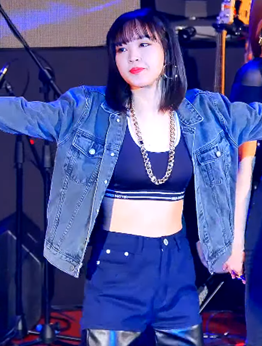 Jeon Ji-yoon performing Heart to Heart on May 21, 2015.